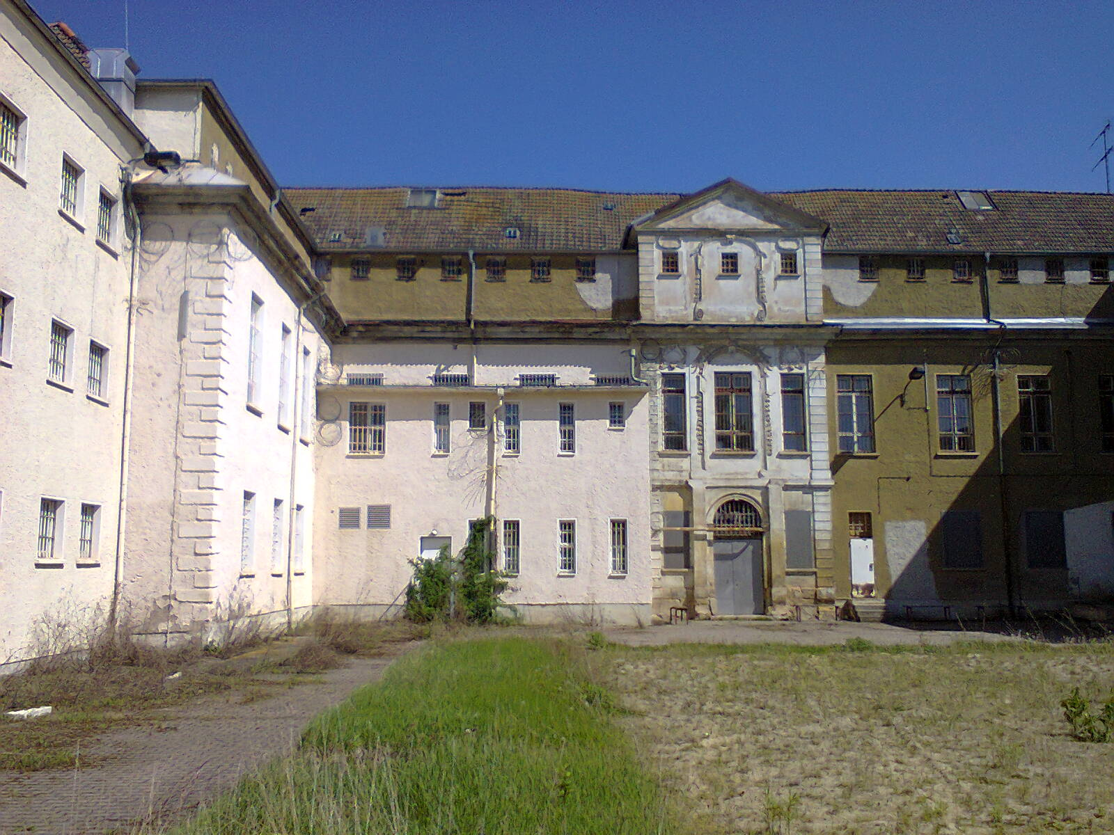 Convent estate Ichtershausen